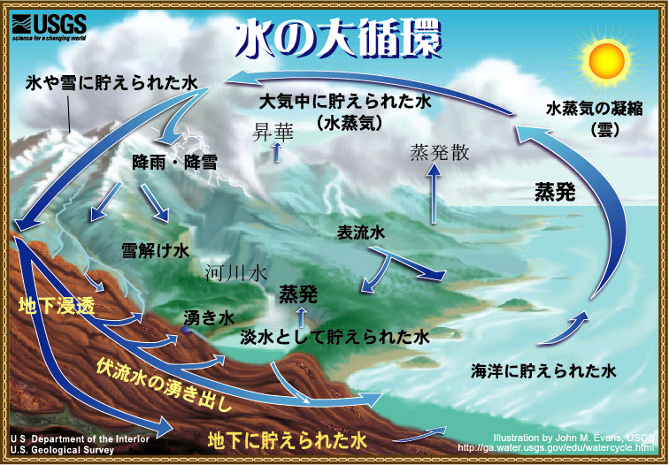 Water-Cycle Diagram (Japanese)